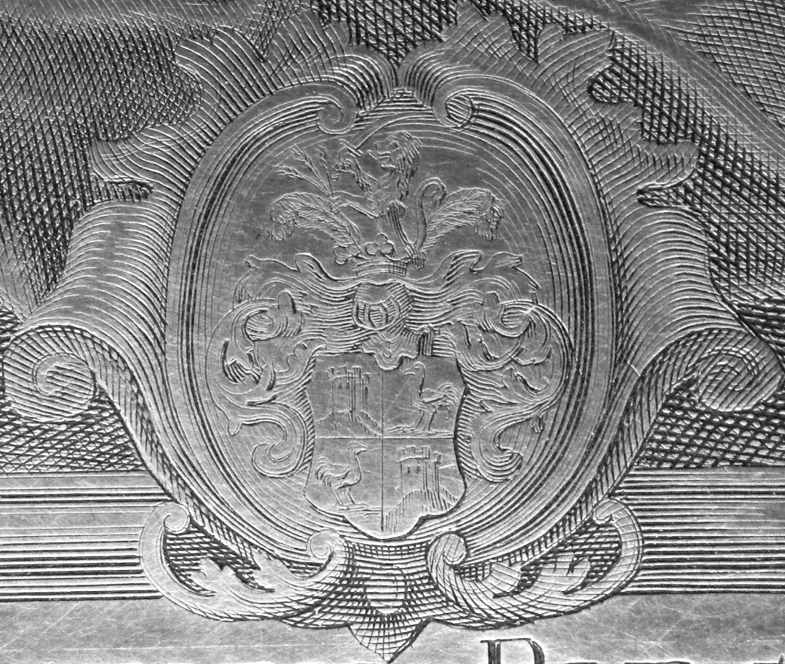 Coat of arms of Johann Christoph Burgstaller (1674 - 1758), Mayor of Bratislava. Printing plate of his portrait by Jeremias Gottlieb Rugendas dated 1743, exhibited in Bratislava City Museum - Olt Townhall. Inscription: "IOH. CHRISTOPH. BVRGSTALLER. // in L. Rq. C. Posoniensi Senator Sen. // Nat. d. 23. Ian. 1674. Aetat. 70. // Hoec coelata, VIRVM, facies tibi candida sistit, // Aetate, et meritis, et pietate grauem // Hon: et obs. c. f. S. W. S. // Iere: Gottlob, Rugendas sc. Posony. 1643."